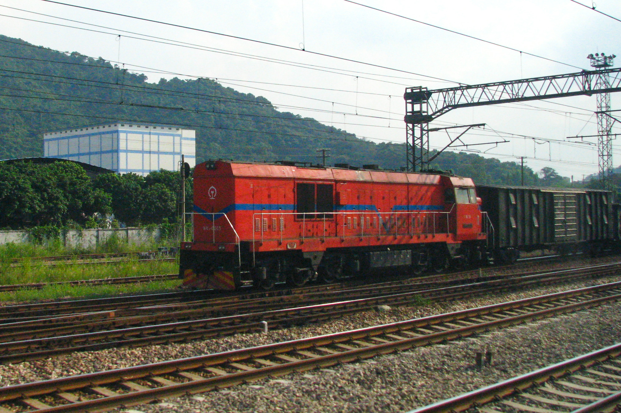 A China Railways DF5D diesel locomotive on the Guangshen Railway.